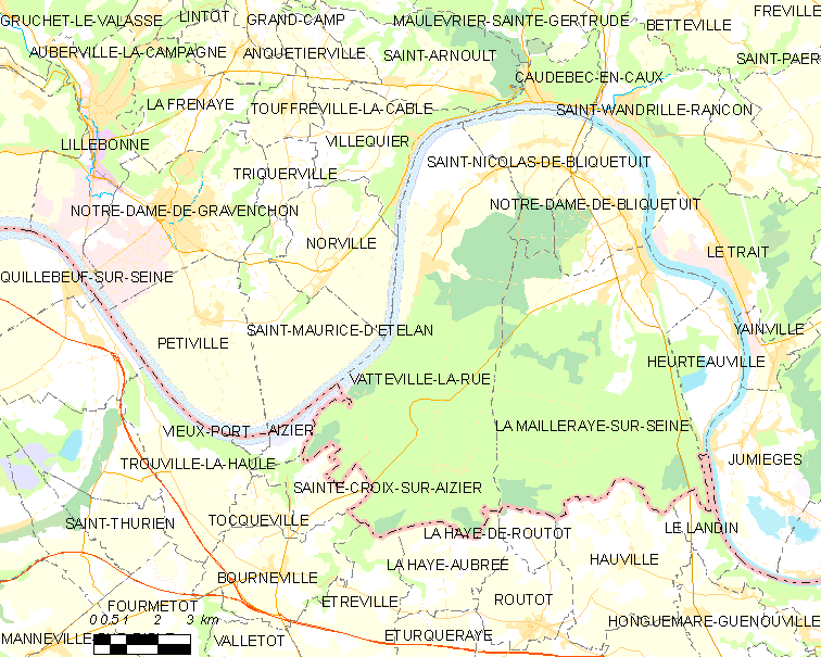 Map of French municipality Vatteville-la-Rue